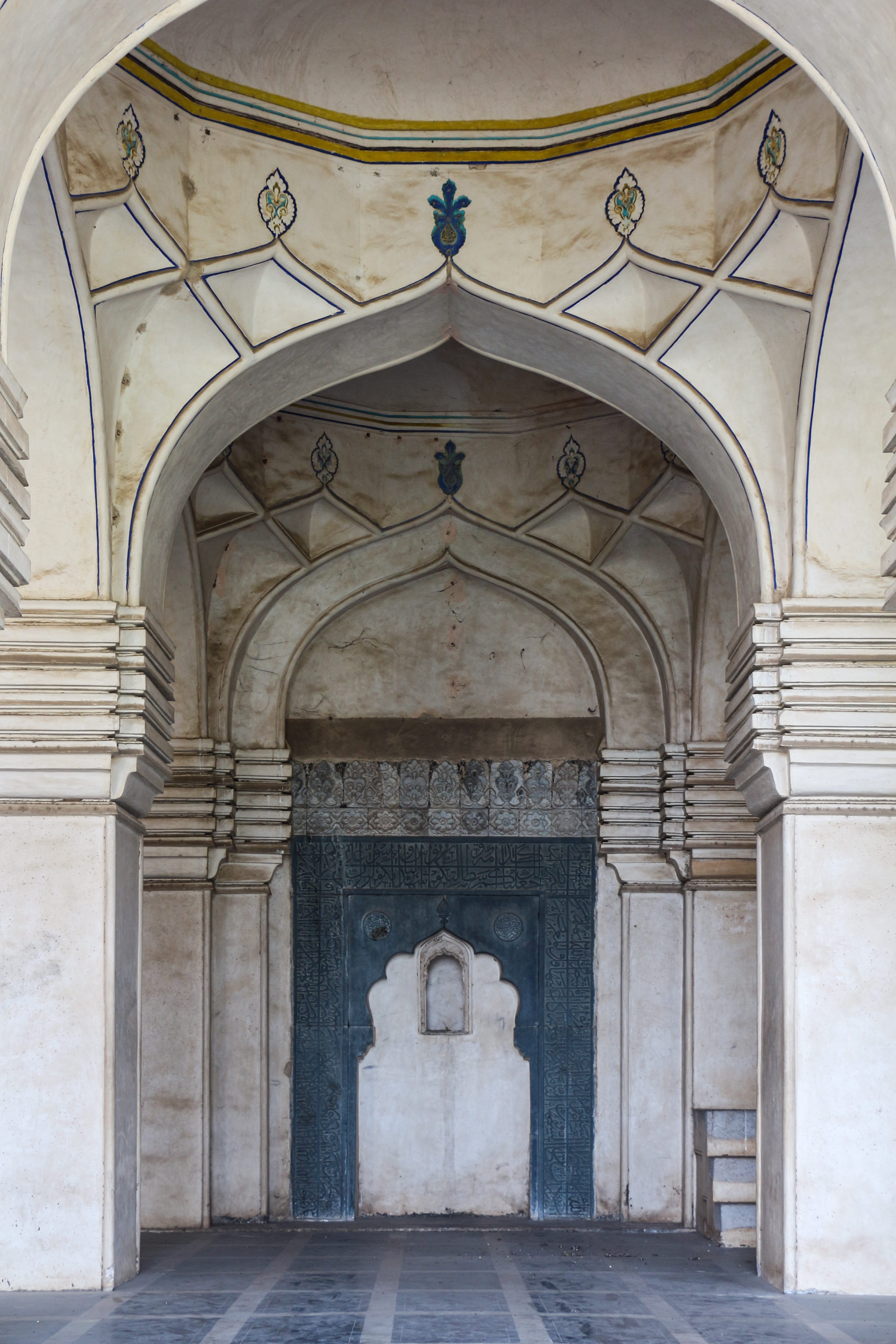 A mihrab in the Hayat Bakshi Mosque, Hyderabad, India